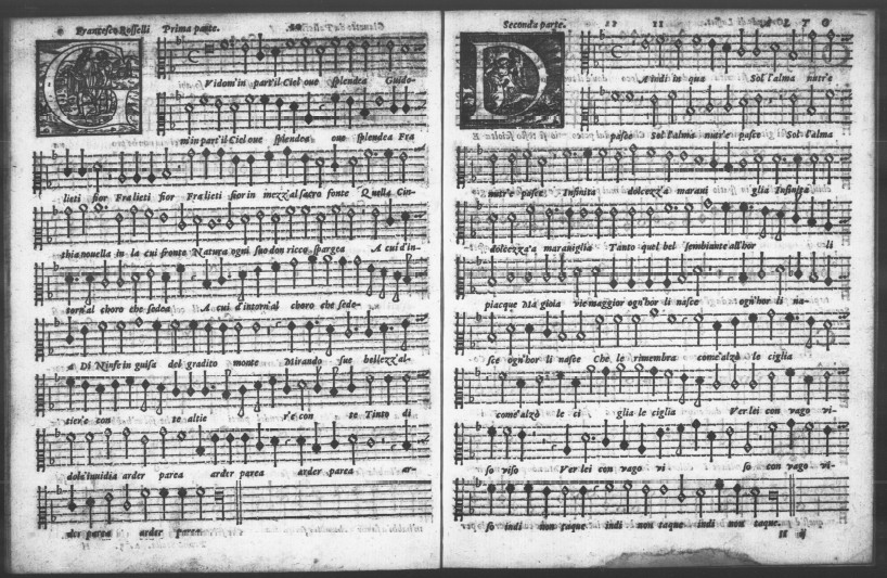 A page from "Prima stella de madrigali a conque voci", Venise, 1570. (London BL)